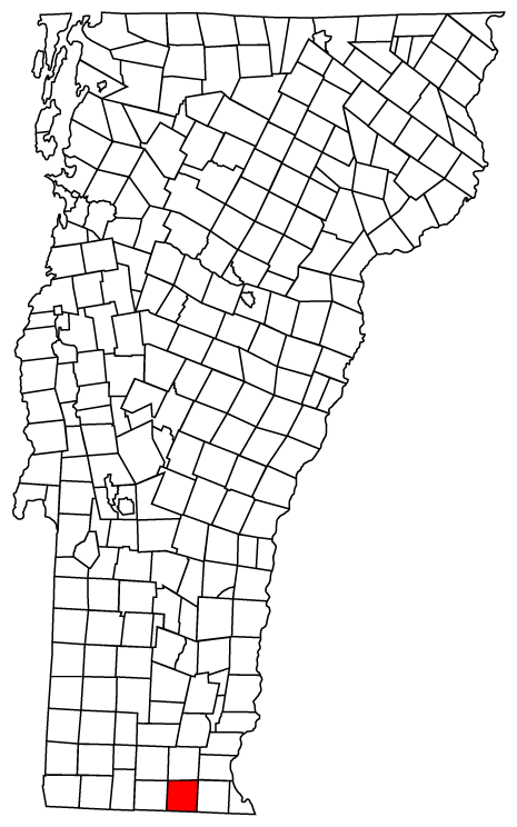 Description: Map of Vermont towns with Halifax highlighted Source: Map created by Jared C. Benedict on 26 March 2004. Copyright: © Jared C. Benedict.